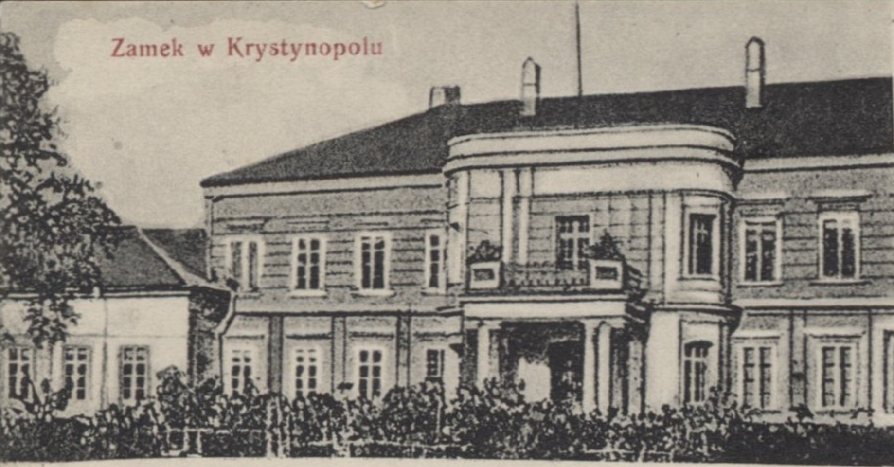 Chervonohrad (former Krystynopol), Ukraine